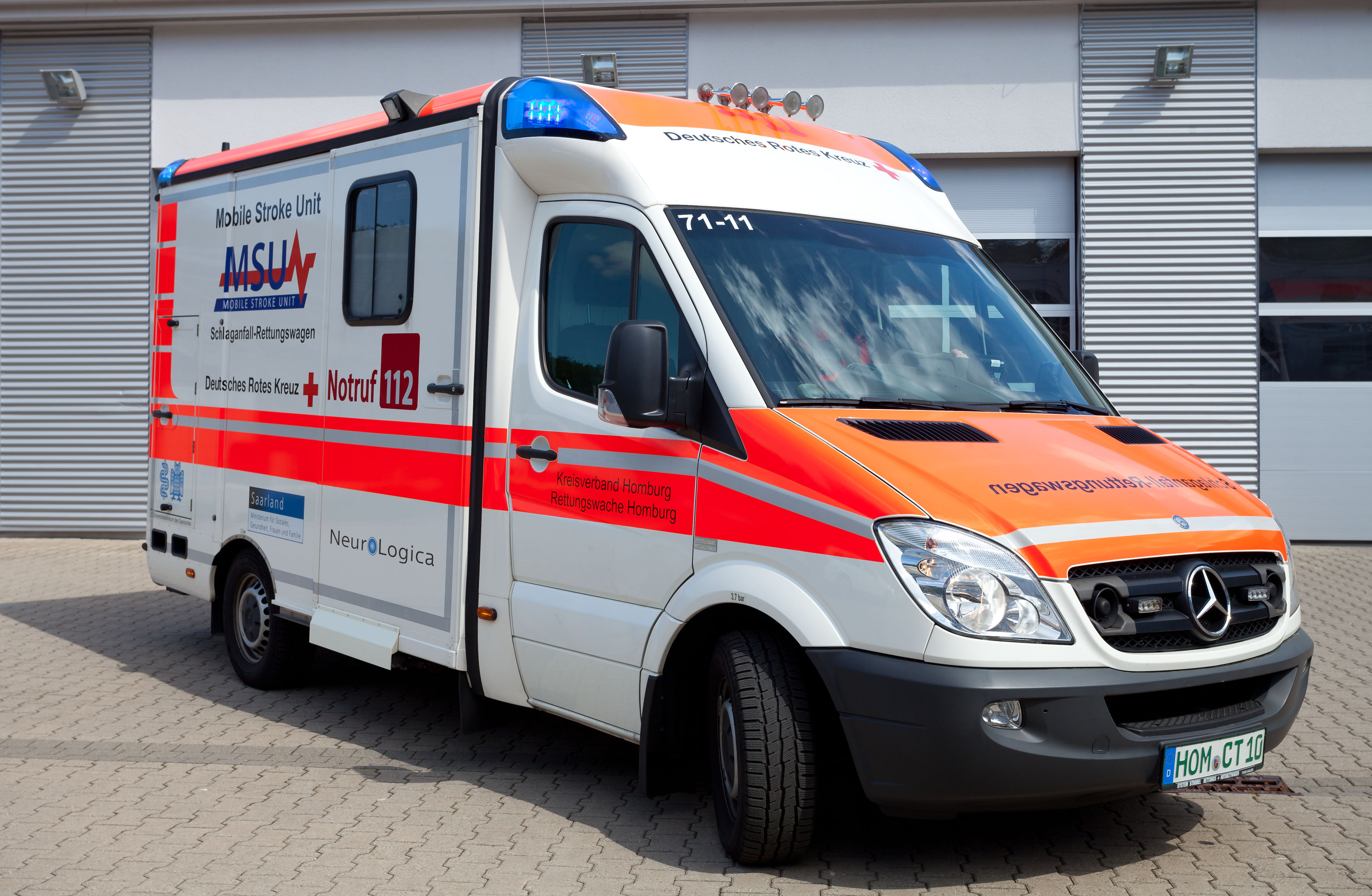 2016.05.04 MSU, Mobile Stroke Unit exterior